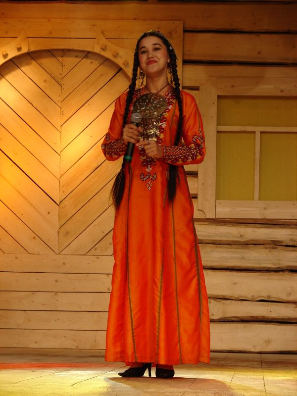 Turkmenian singer in Zakopane, Poland, 2006